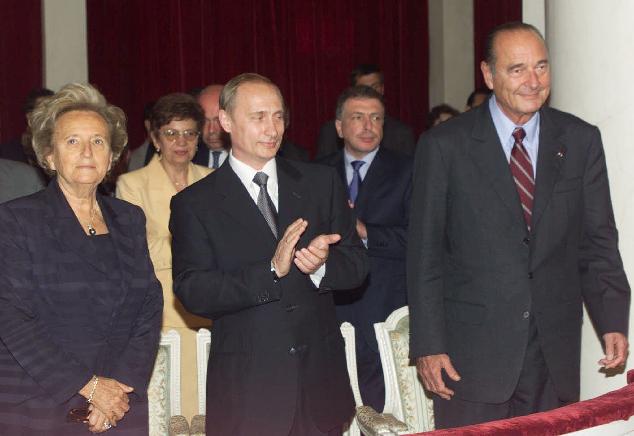 ST PETERSBURG. President Putin with French President Jacques Chirac and Mrs Bernadette Chirac at a concert by the St Petersburg Philharmonic Orchestra, led by Yury Temirkanov. St Petersburg Philharmonic, Grand Hall.